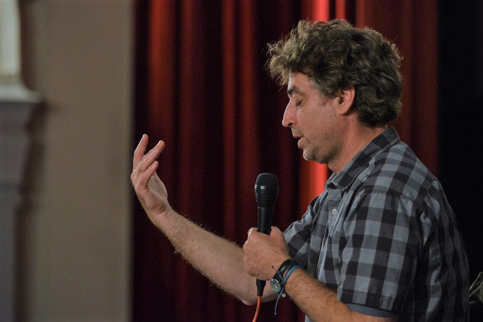 Michael Hardt speaking on Subversive Festival 2012 in Zagreb.